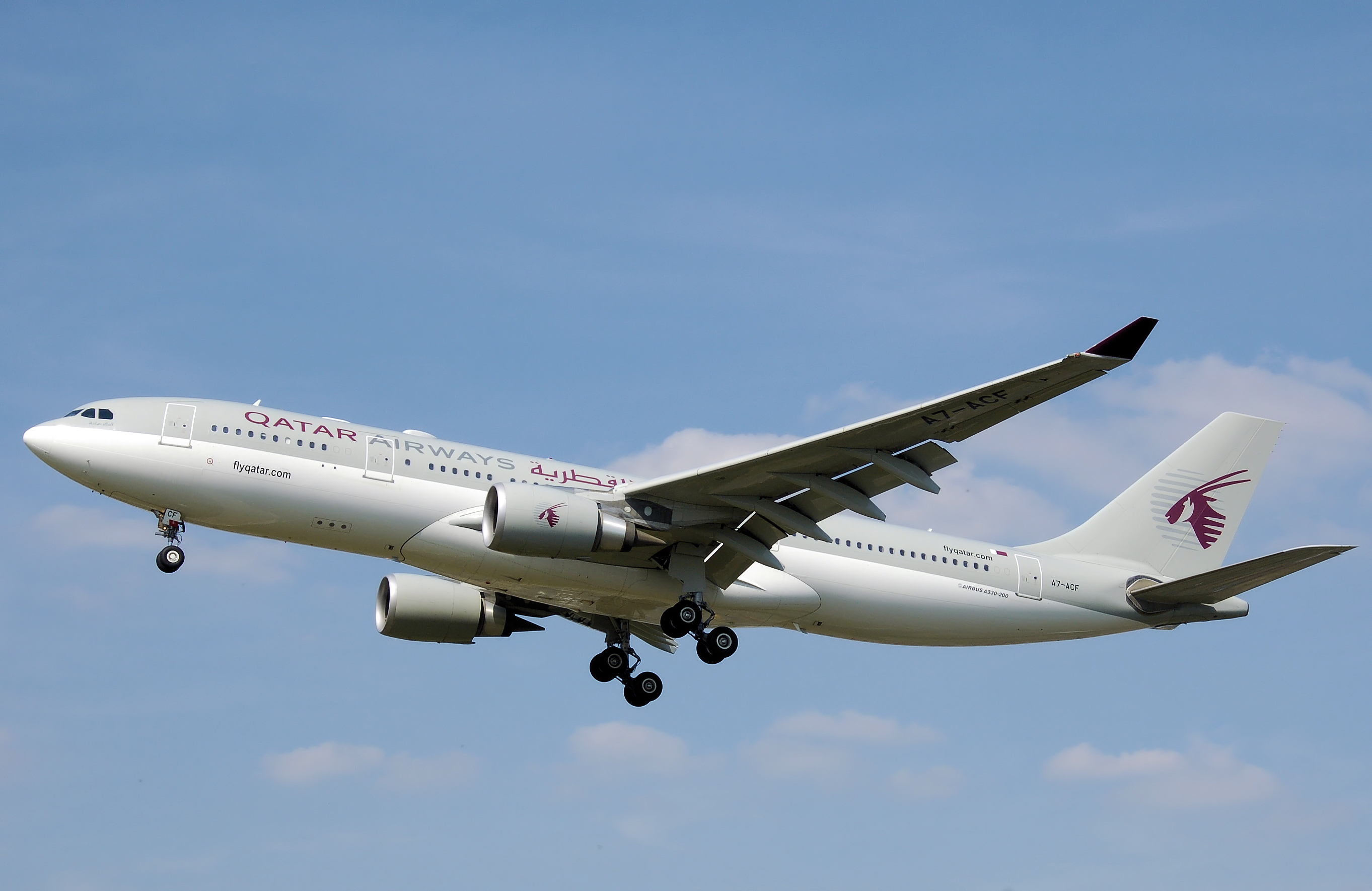 Qatar Airways Airbus A330-200 (A7-ACF) lands at London Heathrow Airport.